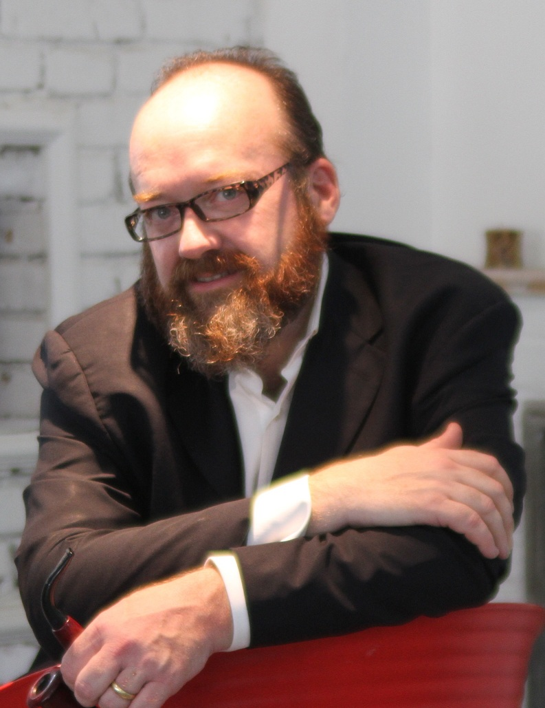 American Actor James Lee Guy (native of Paragon, Indiana) known in China as 盖吉利. James has filmed more than 20 TV series and seven films in China.